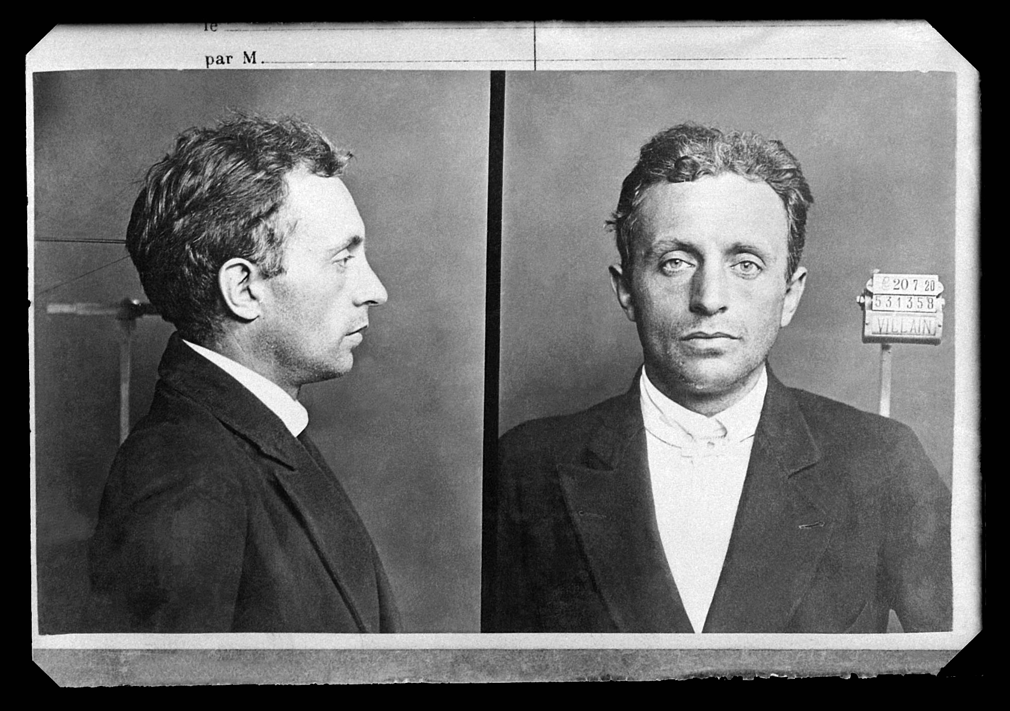 Mugshot of Raoul Villain, who shot Jean Jaurès the july 31st, 1914.